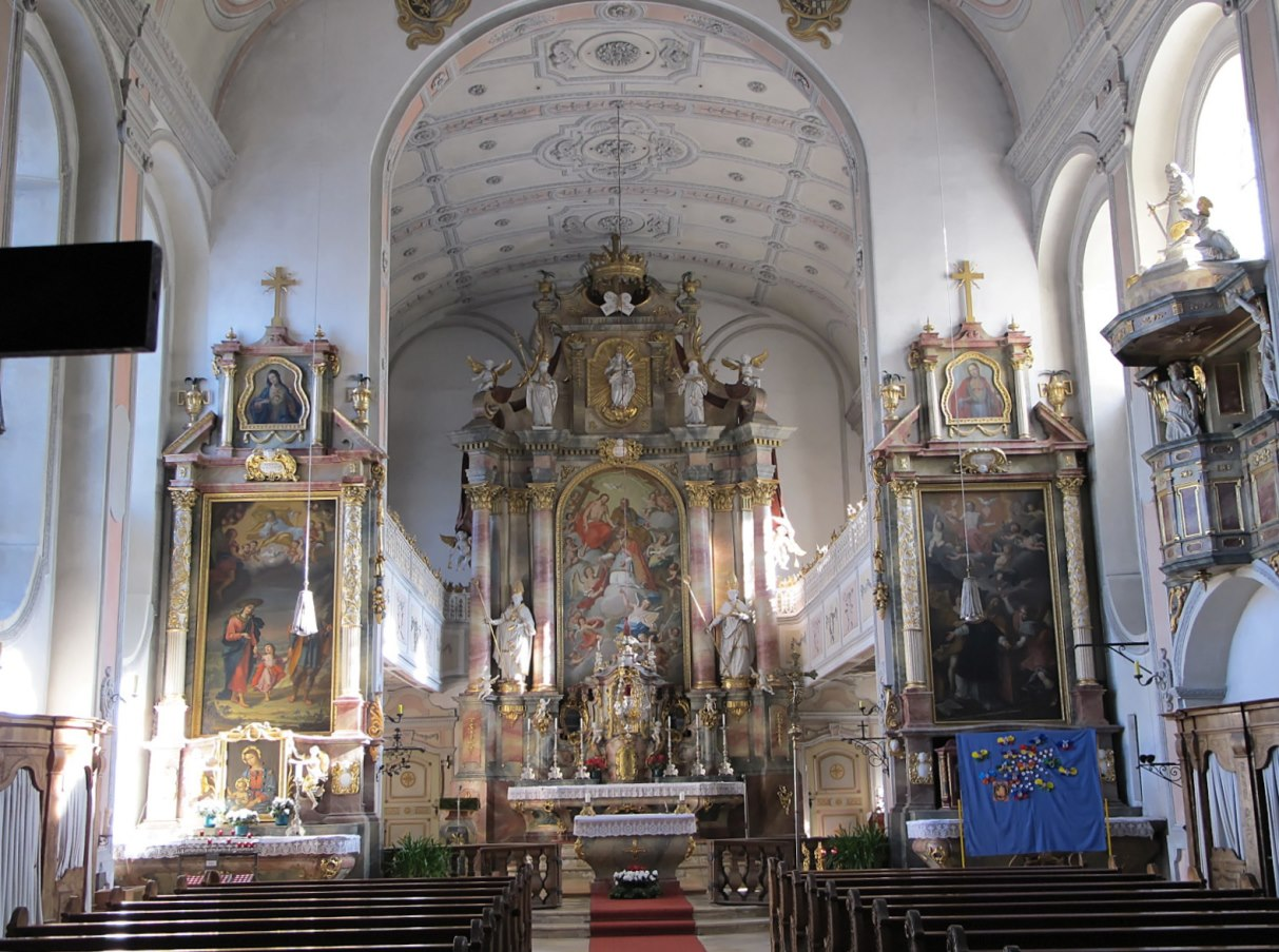 former monastery church St. Martin